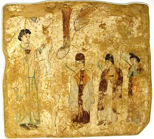 Nestorian priests in a procession on Palm Sunday, in a 9th-century wall painting from a Nestorian church in Karakhoja, Sinkiang.